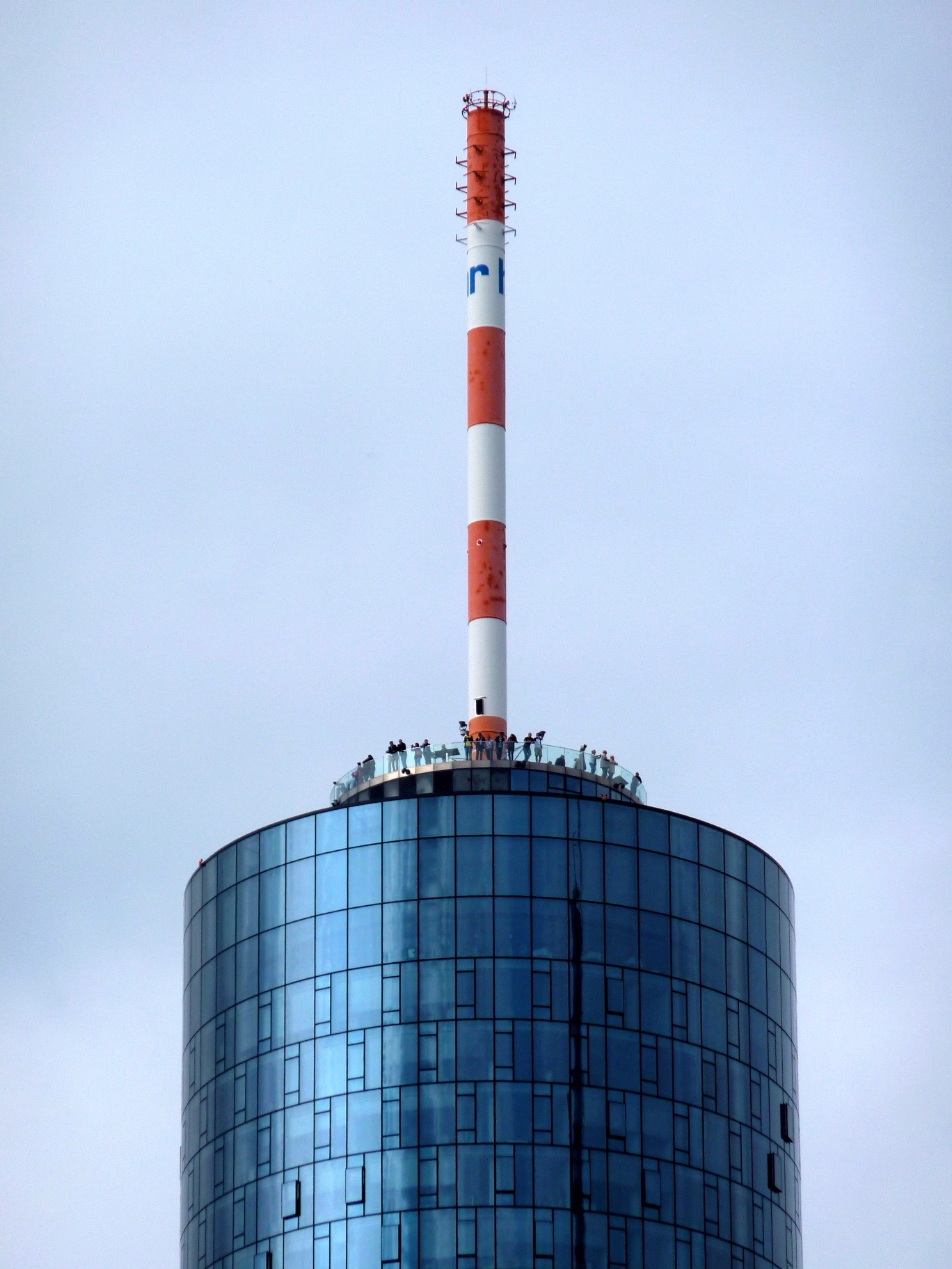 Frankfurt/M., Germany: Top of the Main Tower (named after the River Main – pronounced “mine”) in the bank district, with public visitors’ platform at the height of 198 m (approx. 650 ft.), and broadcast antenna of the Hessischer Rundfunk (HR) (Hassian Broadcast Corporation) on top